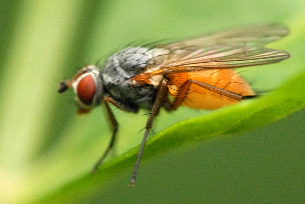 Pegomya bicolor from Commanster, Belgian High Ardennes .